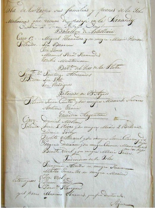 José María Pinedo, passenger list 1833